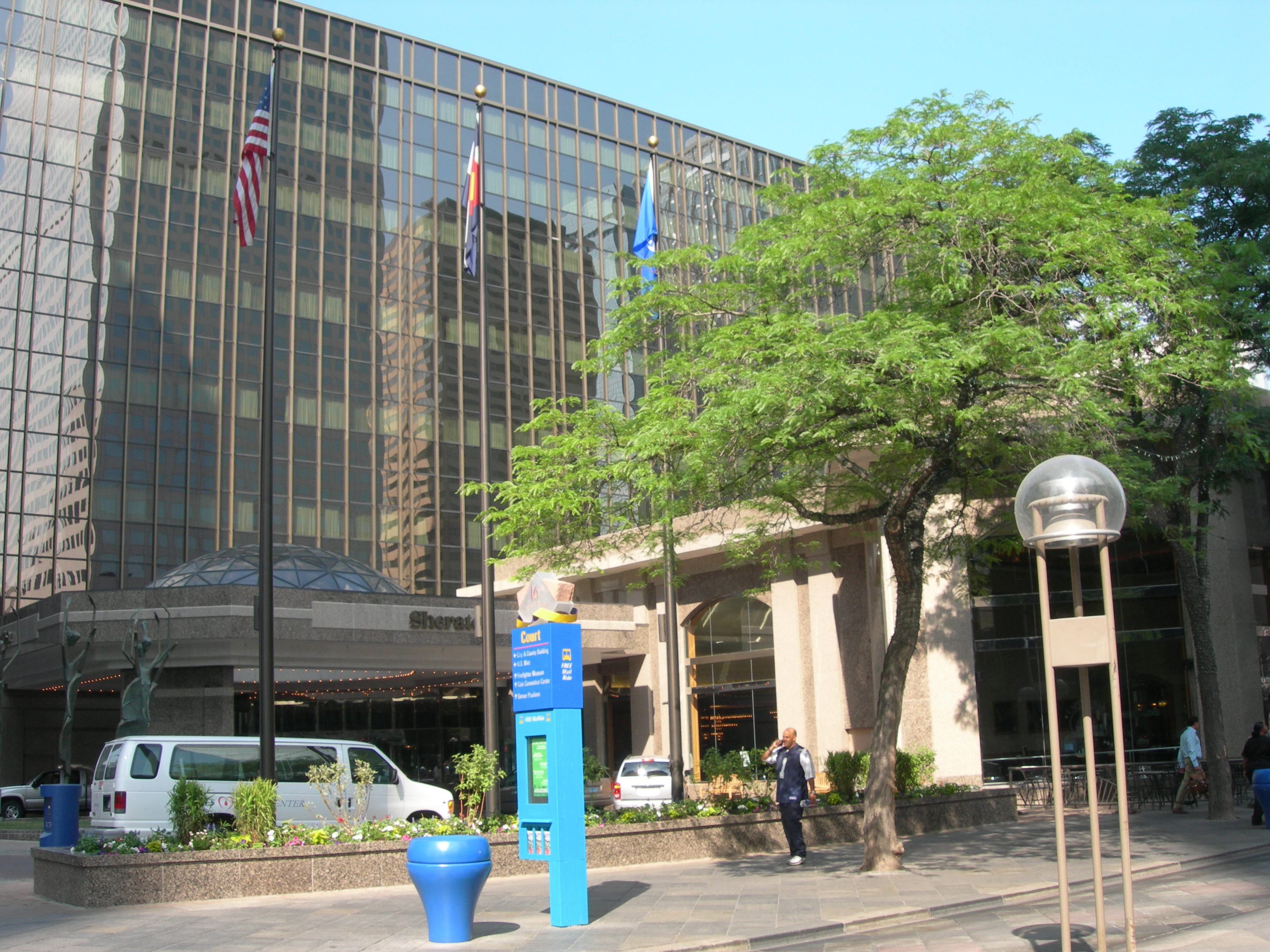 "Plaza Tower" building (1997) of the Denver Sheraton Hotel and Conference Center. The building complex also incorporates the 1960 "Tower Building" (not shown) that was designed by Araldo Cossutta and I. M. Pei.